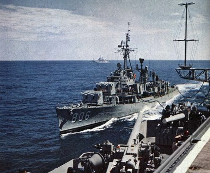 The U.S. Navy radar picket destroyer USS Higbee (DDR-806) is refueled by the aircraft carrier USS Ticonderoga (CVA-14) during that carrier's deployment to the Western Pacific from 5 March to 11 October 1960. The guided missile cruiser USS Canberra (CAG-2) is visible in the background.